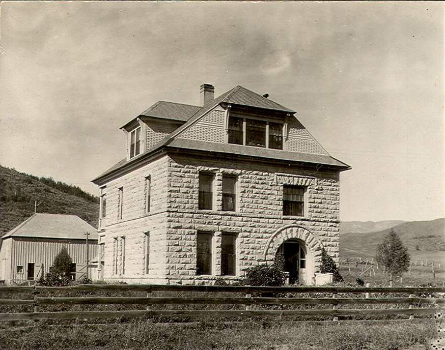 The Crawford House in Steamboat Springs, Colorado. Photo taken about 1896 shortly after the house was built. Smaller structure in back was the barn for the house.